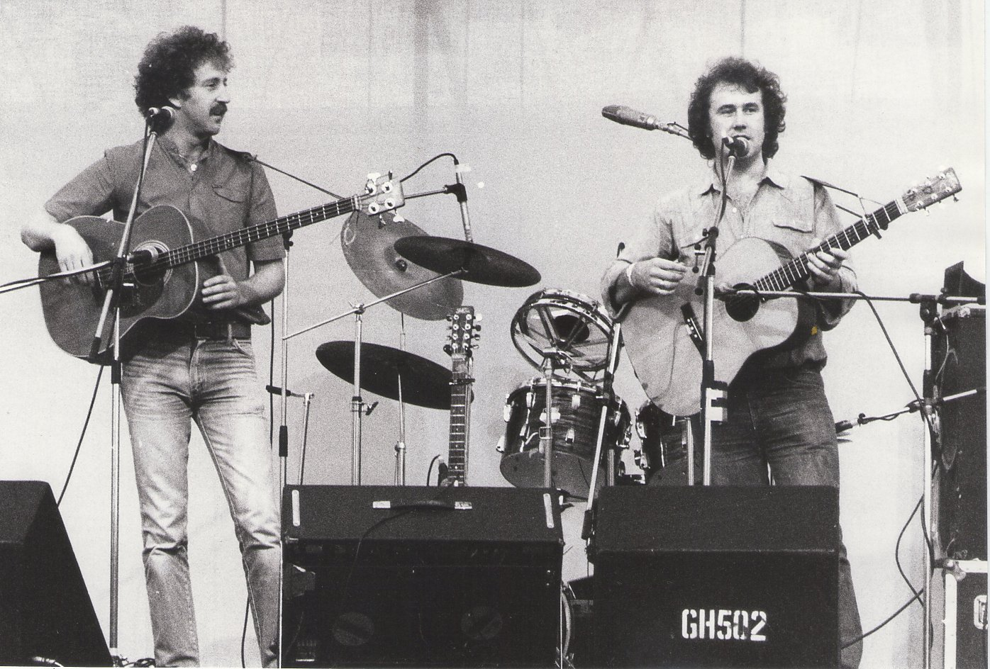 Bob Fox and Stu Luckley (UK folk artists) on stage at the Leeds Folk Festival, UK, 1982 (photograph by Tony Rees)